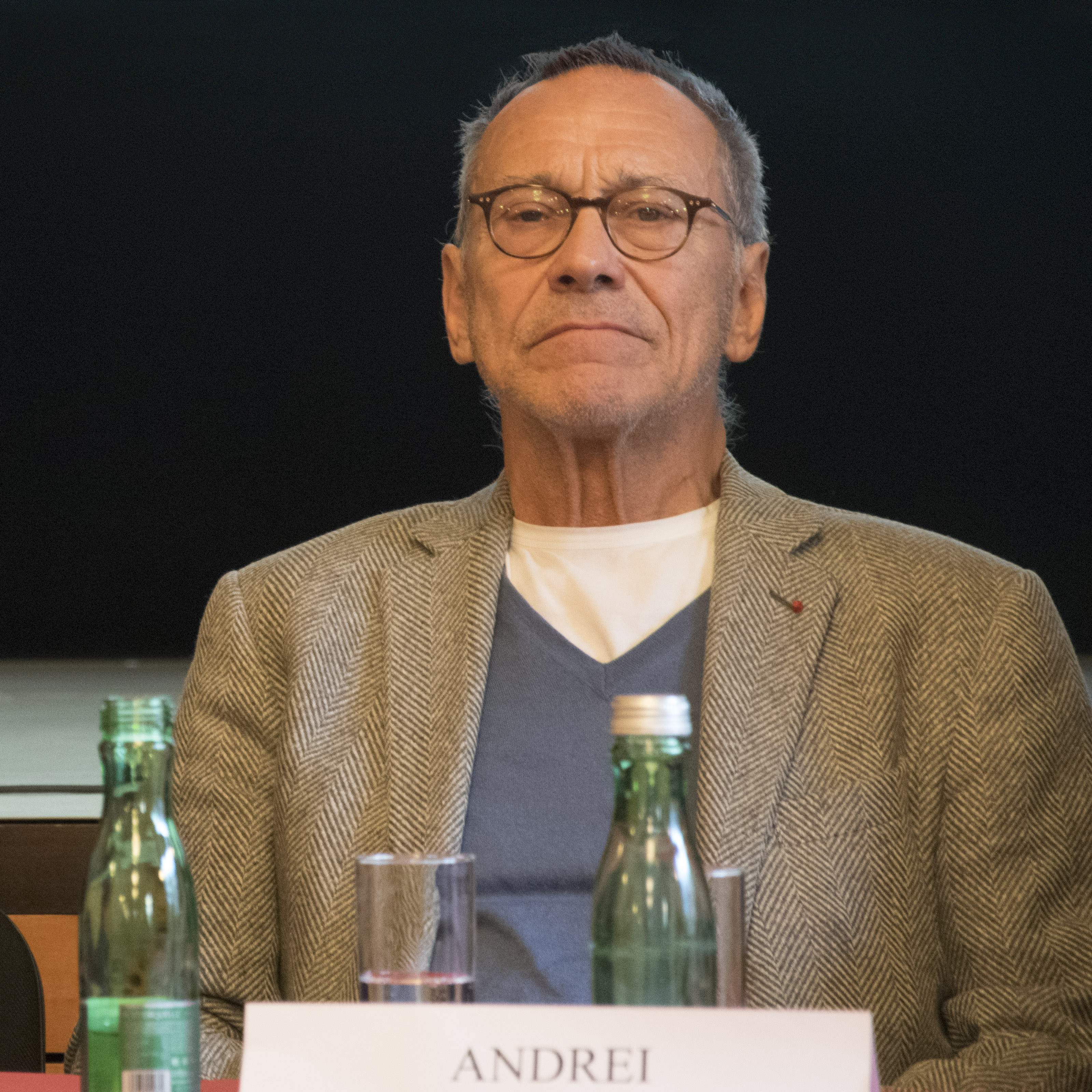 Andrei Konchalovsky at a press conference for his film "Paradise" in Vienna, Austria. 10.12.2016